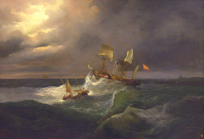 Paddle Steamer Isabel II; ex-SS Royal William; renamed Santa Isabel in 1850 painted by Antonio de Brugada Vila (1804-1863)